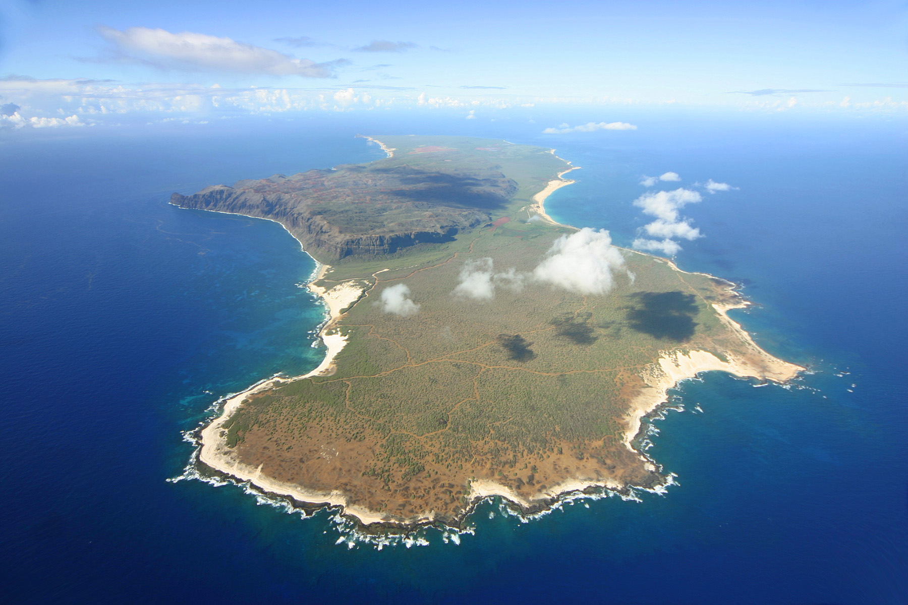 Aerial view of Niʻihau Island in Hawaiʻi, looking southwestward from the north. Taken by Christopher P. Becker on 25 Sep 2007 from a helicopter.